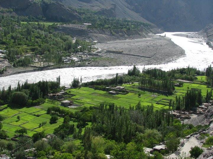 Siksa is a village at the Shyok River in Chorbat Valley, Ghanche District of Gilgit-Baltistan, Pakistan, lying 340 kilometres (210 mi) east of Skardu, near the border of India.